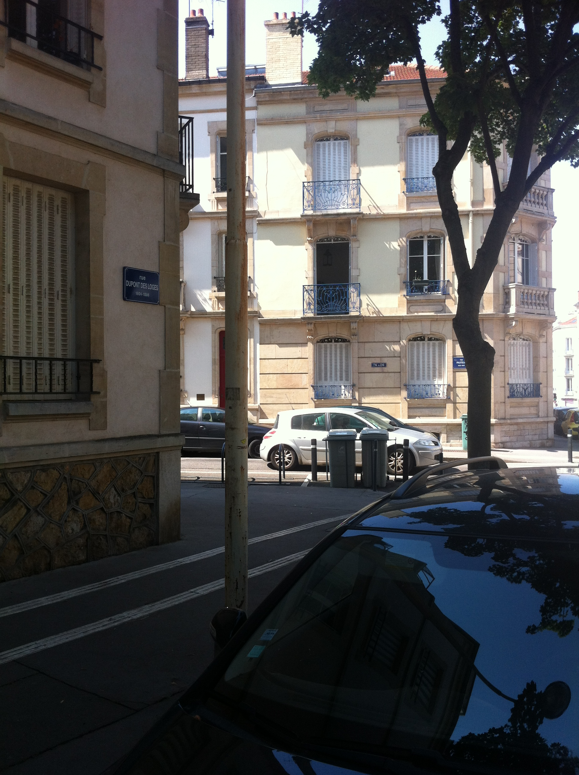 View on the corner of Dupont-des-Loges's and Pasteur's Streets in the city of Nancy, in France